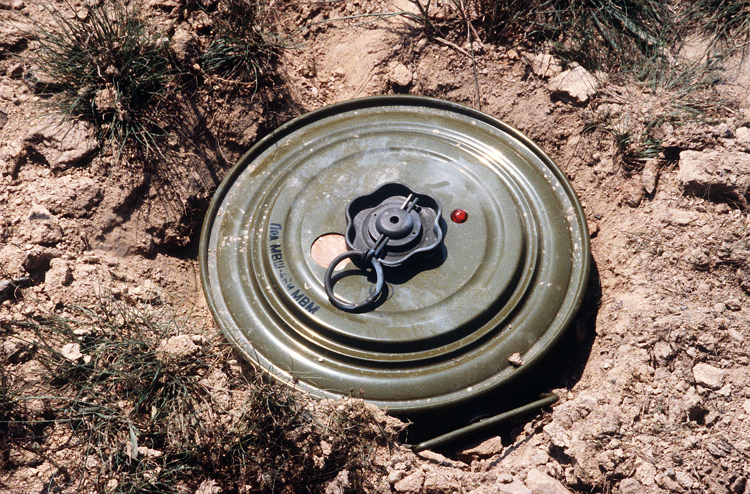 A Soviet TM-46 ANTI-TANK MINE. Location: MARINE CORPS BASE, CAMP LEJEUNE, NORTH CAROLINA (NC) UNITED STATES OF AMERICA (USA)